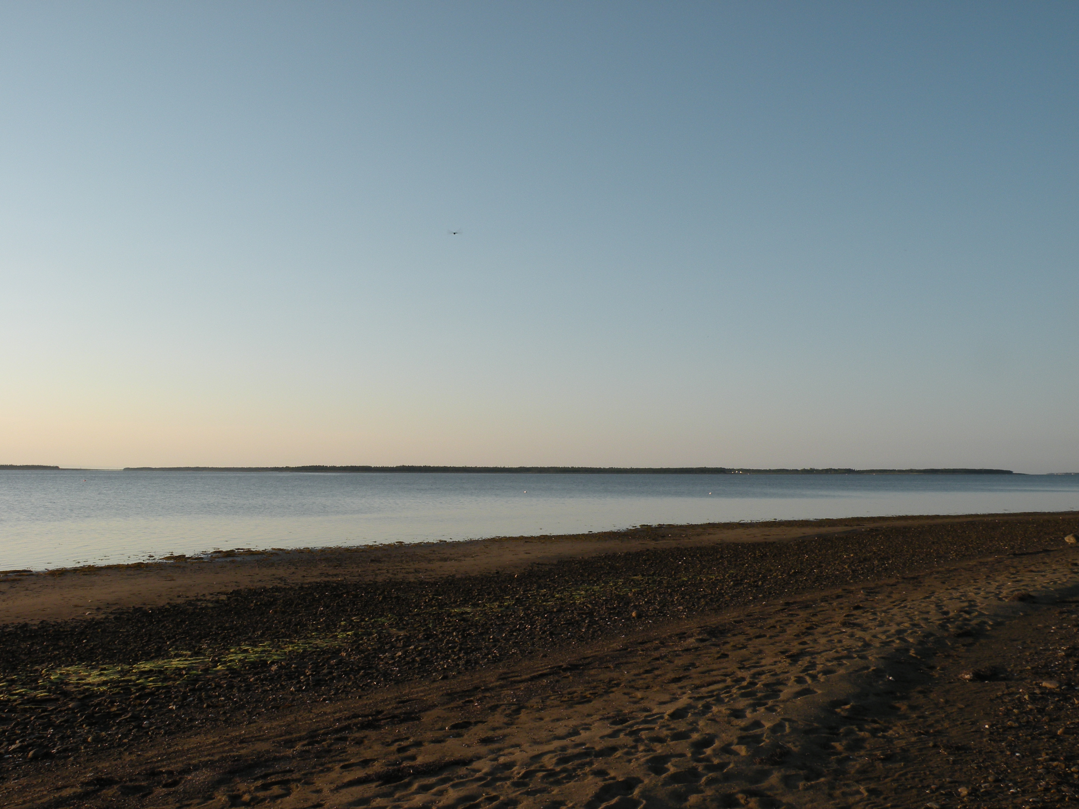 Pokesudie Island and Pokesudie Islet, seen from Haut-Shippagan.